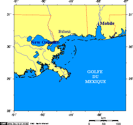 Map of Mississippi coast